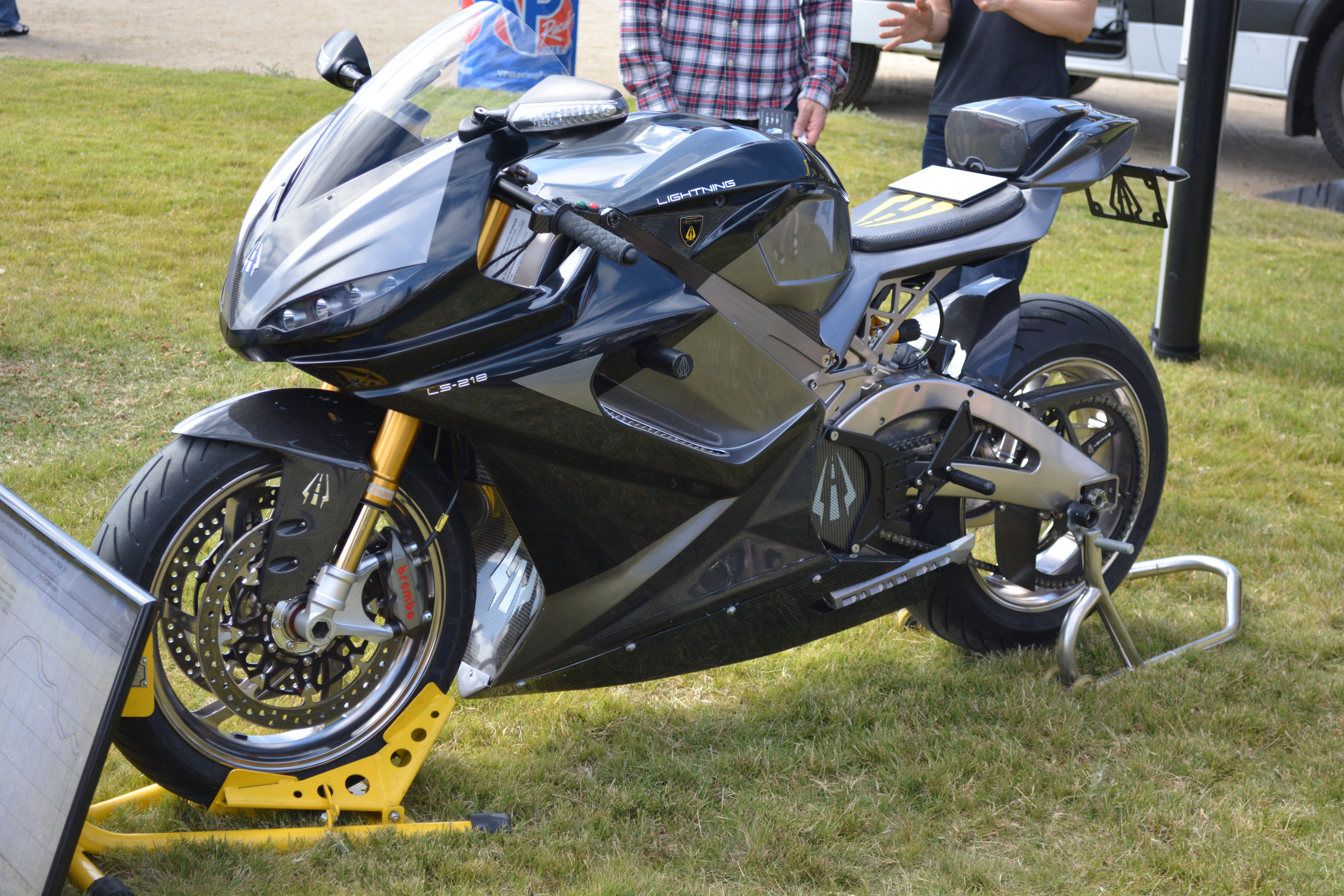 Lightning LS-218 at the SBK FIM Superbike World Championship 2015